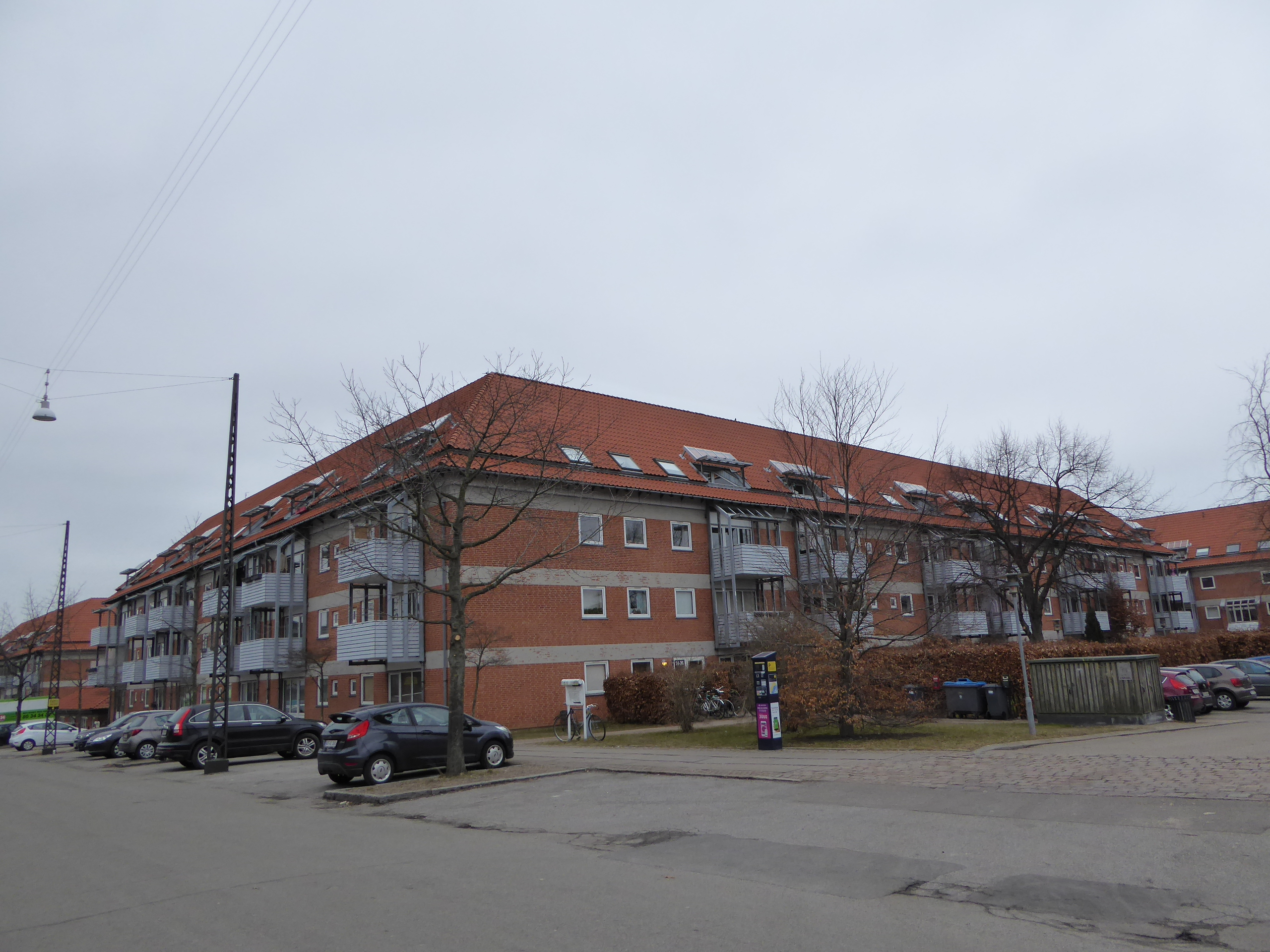 The housing cooperative AAB Afdeling 41 at Ragnhildgade in Østerbro in Copenhagen.